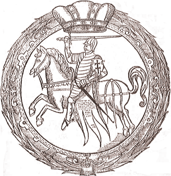 COA of the Grand Duchy of Lithuania. 1588